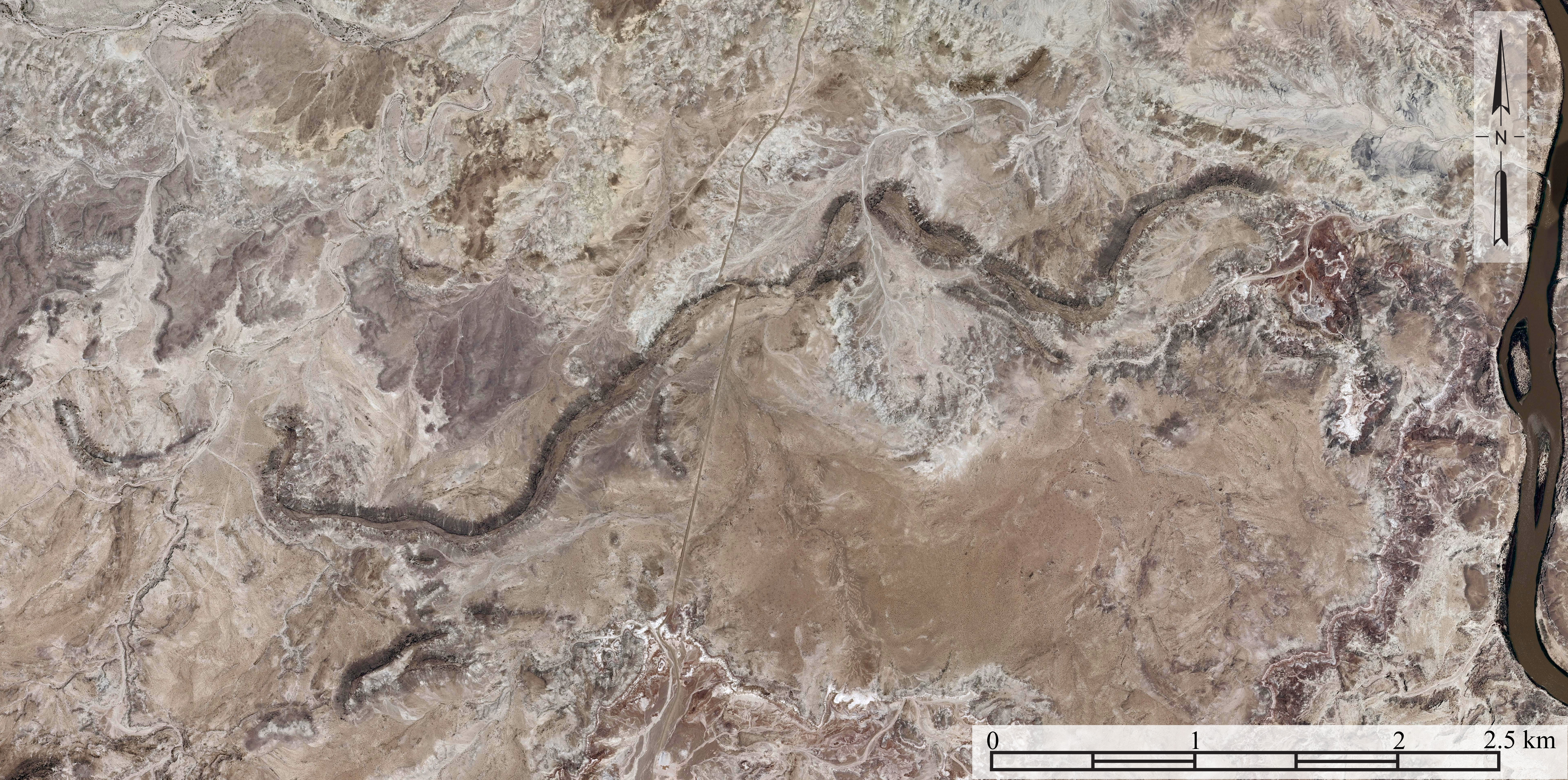 Exhumed fluvial paleochannel, Emery County, Utah. The erosion of softer surrounding mudstone left this paleochannel as a sandstone ridge. Created from USDA/FSA Aerial Photography Field Office 2009 NAIP digital aerial orthophoto mosaic for Emery County, Utah. latitude 38° 52’ 23.35”, longitude -110° 13’ 2.63”